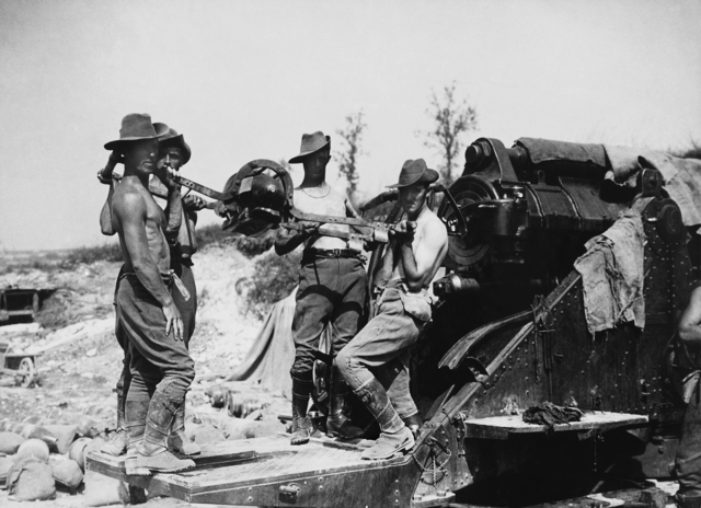 Group portrait of four Australian gunners who are about to load a shell into a 9.2 inch breech loading howitzer. Left to right: 1952 Sapper Walter Gunyon 320 Gunner Claude McCook 608 Corporal Leslie Frank Beagley 245 Sergeant Duncan McRae MM Comment : They are part of the 55th Siege Artillery Battery.